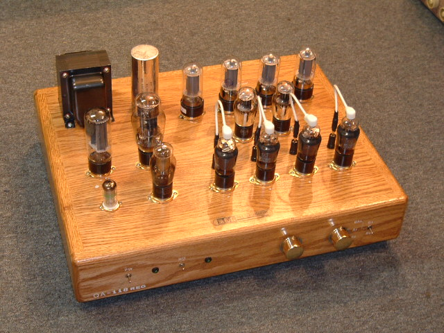 Space-Tech Lab. QA-118-REG balanced vacuum tube pre-amplifier with tube rectifier and tube regulator